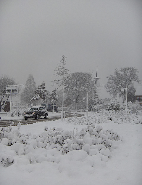 Wezep during a heavy snowfall.